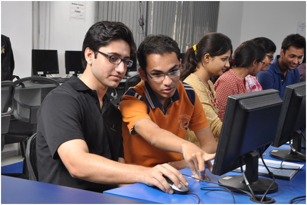 FIEM Campus Inside